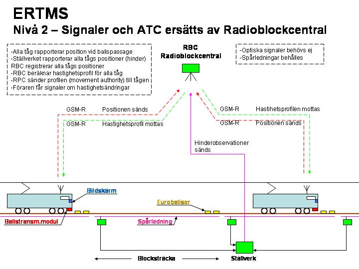 ETRMS Level 2